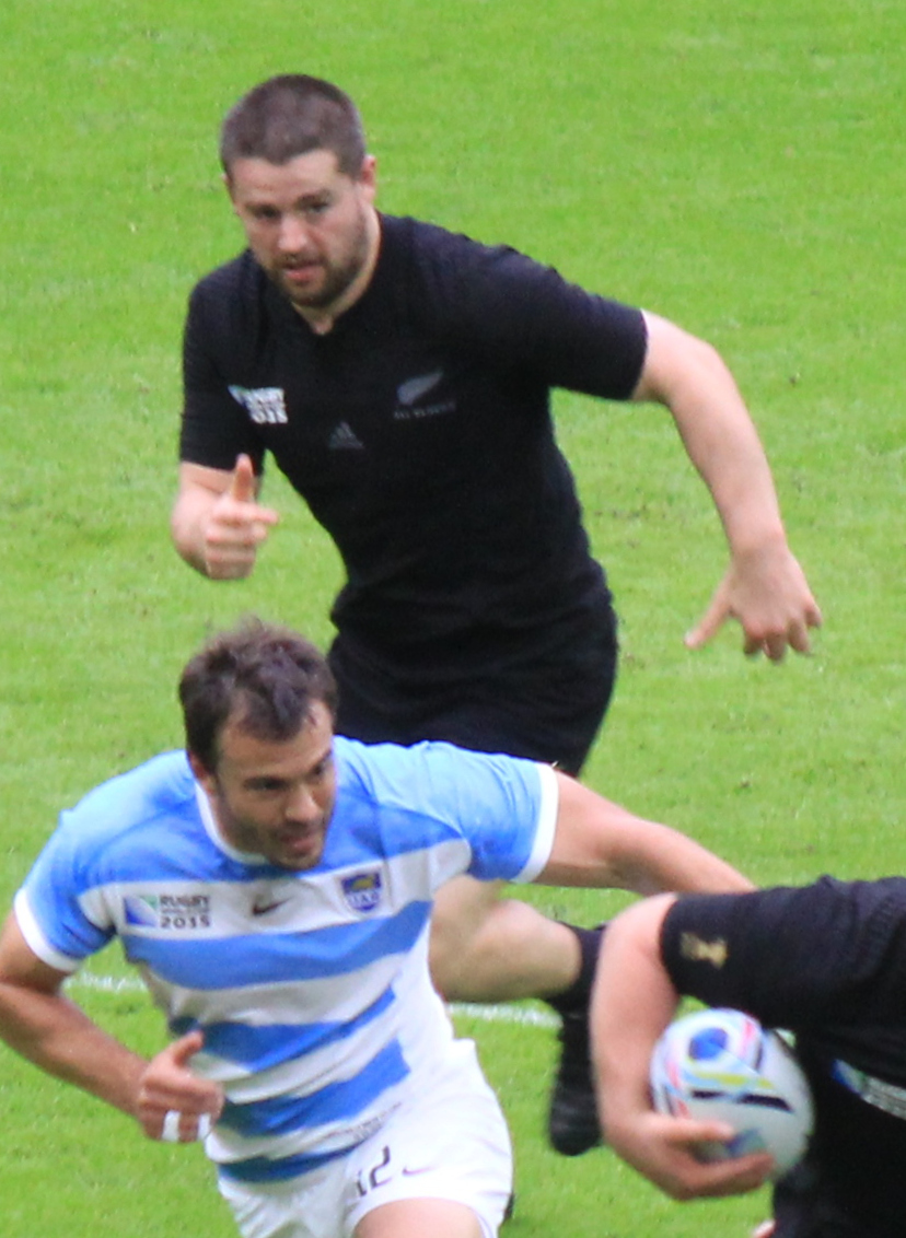 New Zealand international rugby union footballer Dane Coles playing in 2015 Rugby World Cup game New Zealand vs Argentina at Wembley Stadium in London.